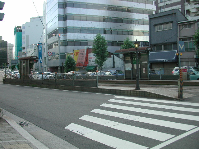 Hiroshima Electric Railway Matobacho Station for Hatchobori and Kamiyacho